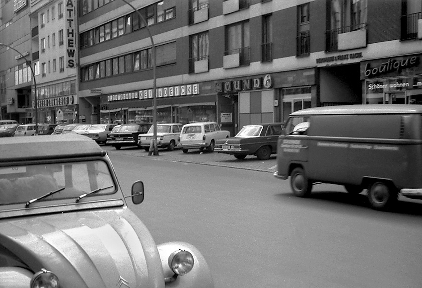 The famous discotheque SOUND Berlin, Genthiner Straße 26, exterior view